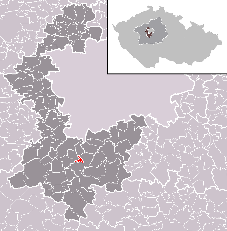 Location of Měchenice municipality within Prague-West District and administrative area of Černošice as a Municipality with Extended Competence.